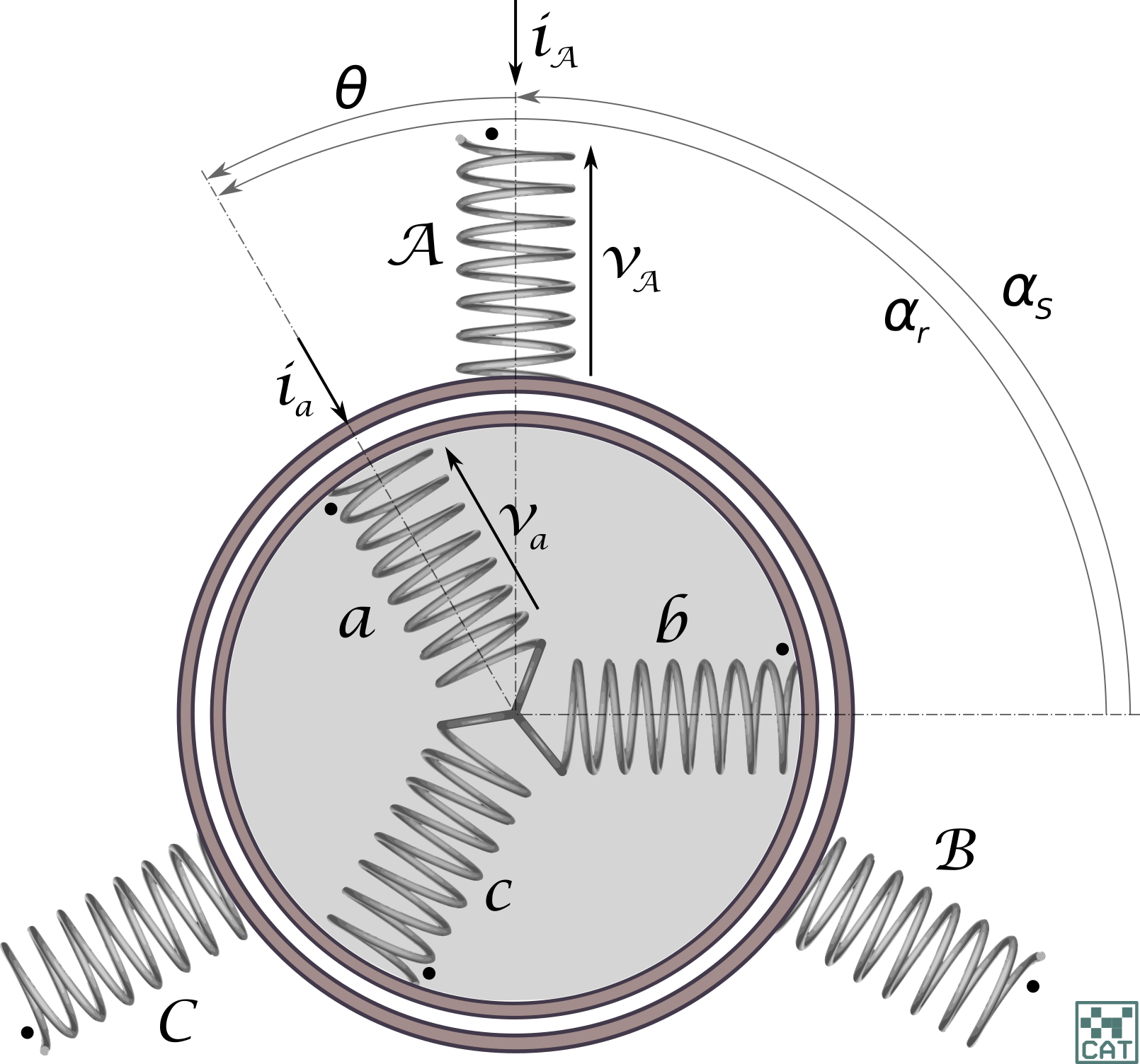 Electric diagram of the asynchronous machine with wound rotor